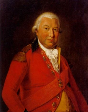 Portrait of Louis Eugene, Duke of Württemberg (1731-1795)